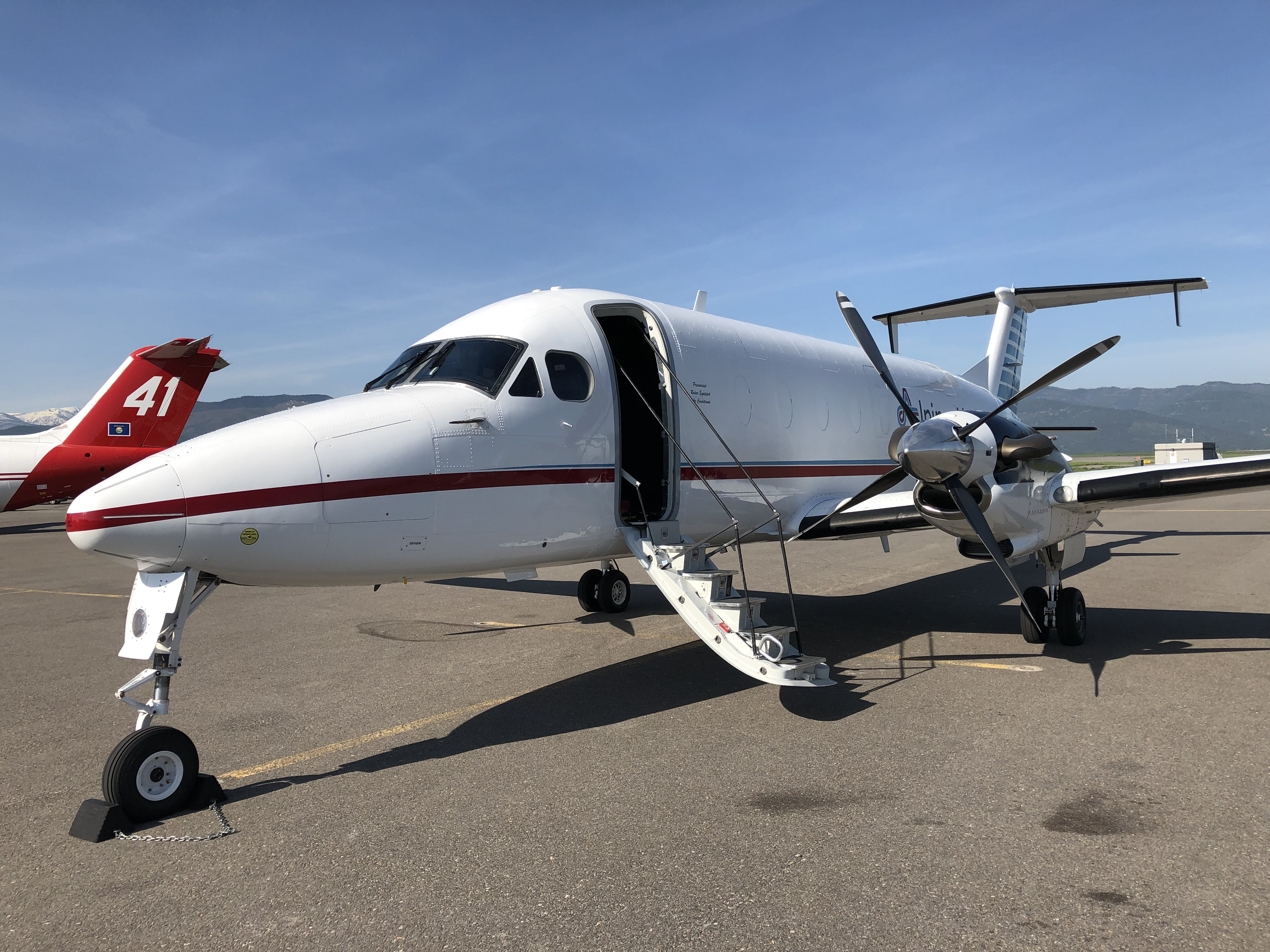 Alpine Super Freighter, 1900D. Largest Single Pilot Cargo Airplane